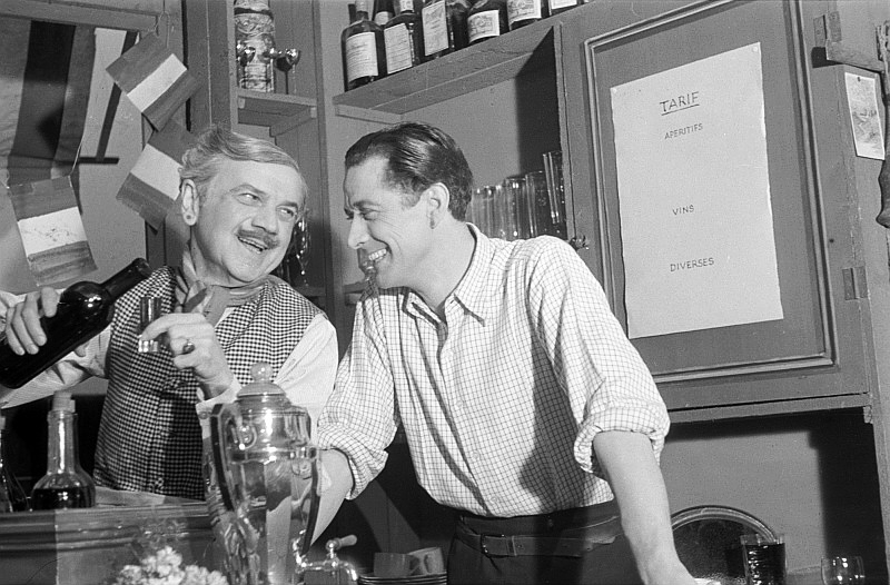 Hans Leibelt (left), in the role of César, Hans Söhnker (right) in the role of Marius. Original image description from the Deutsche Fotothek